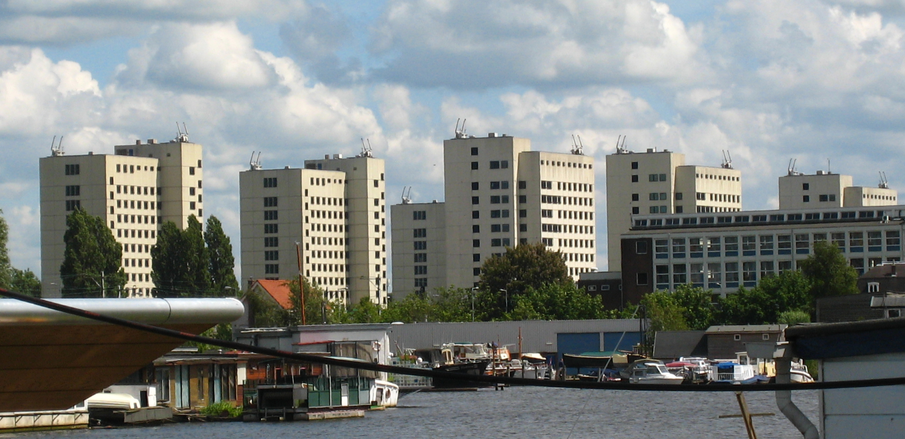 The six towers of the Bijlmerbajes (Penitentiaire Inrichting Over-Amstel), seen over the river Amstel, in Amsterdam, Holland.